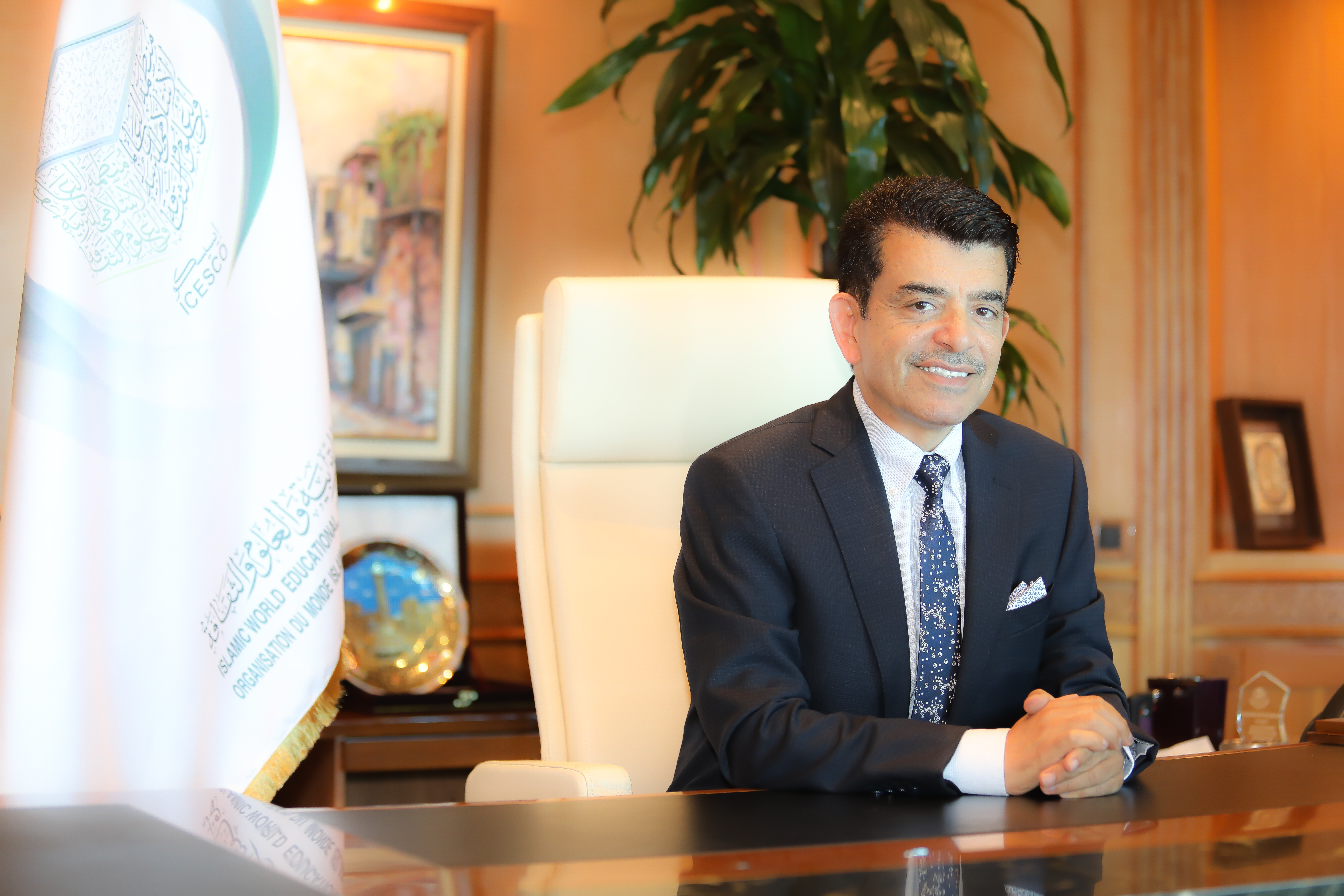 Dr Salim Almalik